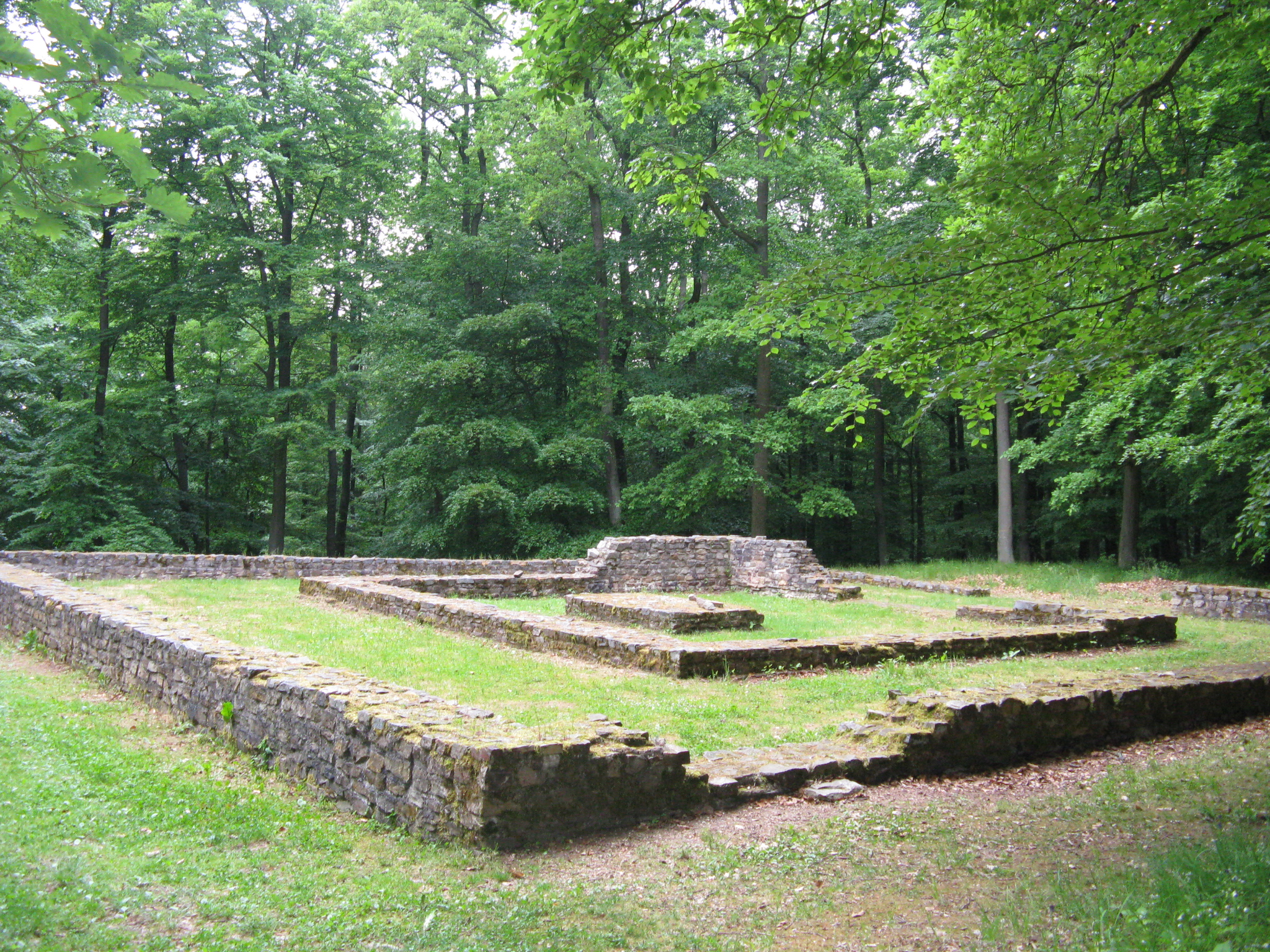 remnants of Roman Mercury Sanctuary, Koblenz City Forest, Germany